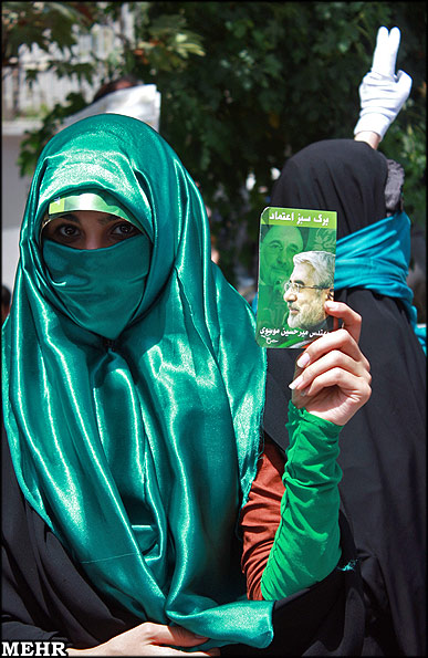 نماز جمعه ۲۶ تیر ۱۳۸۸ به امامت هاشمی رفسنجانی